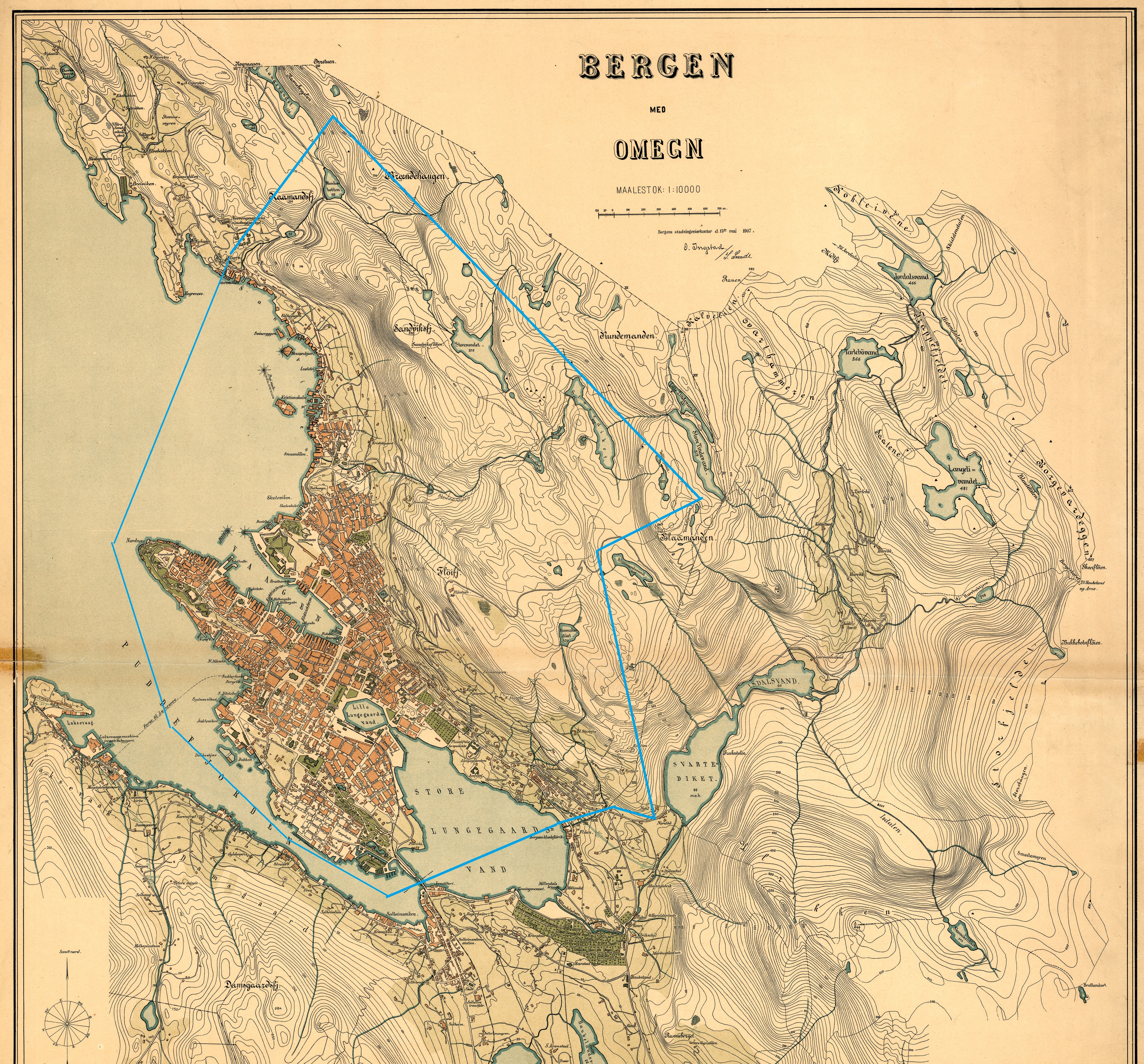 Jurisdiction of Bergen city by 1276 indicated on map from 1907.